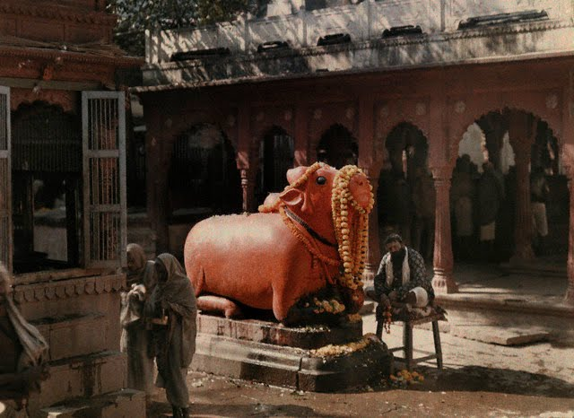 A flower covered idol sits in the court of the Golden Temple, Benares.